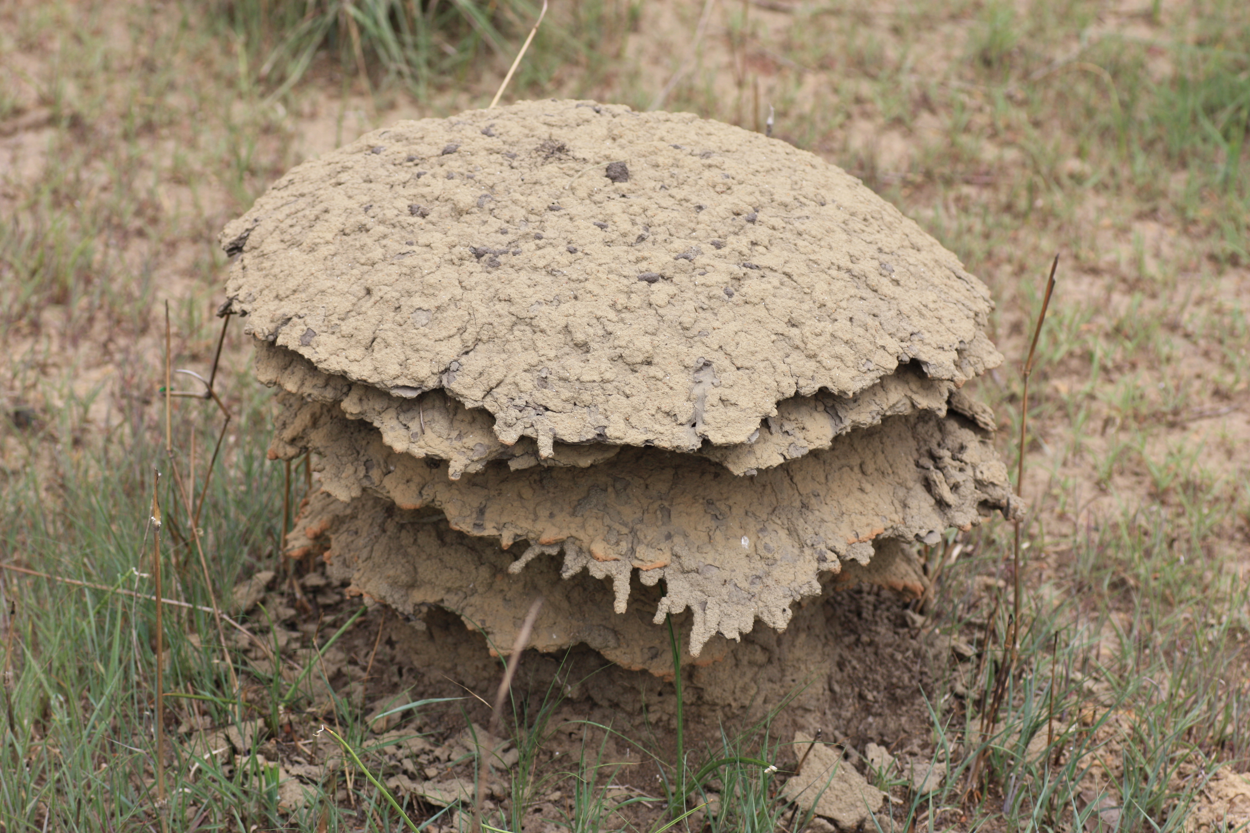 Cubitermes termite mound, Mare aux Hippopotames biosphere reserve, Burkina Faso, Africa.